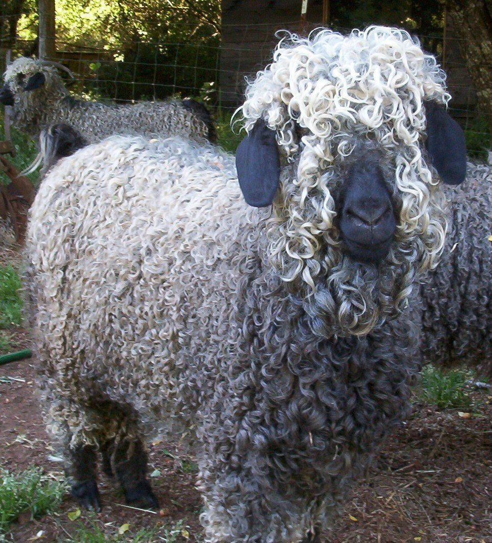 Angora goat, my picture, my goat